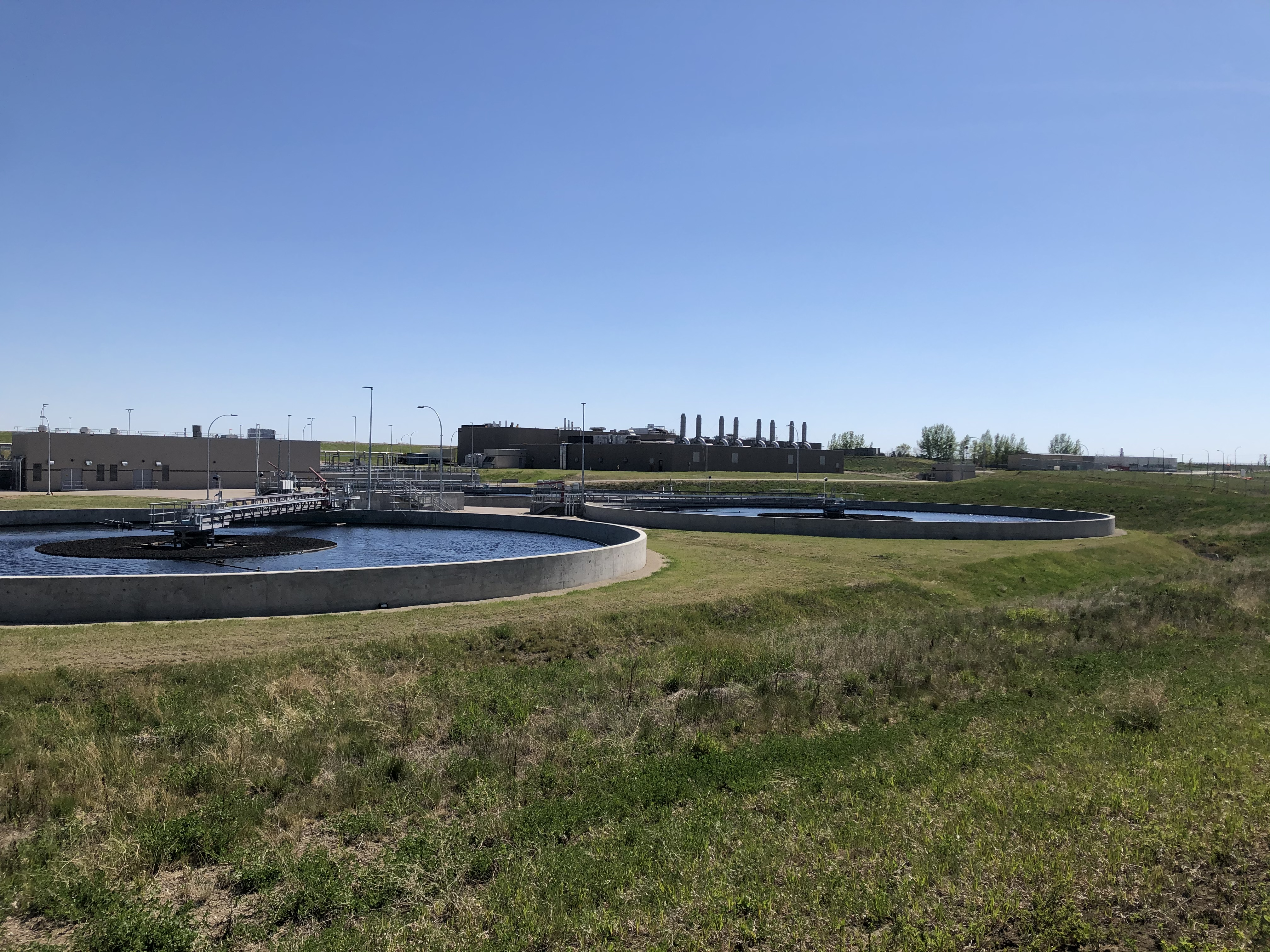 This is the Regina Epcor Wastewater Treatment Plant. In includes the main building, the entrance building, two other buildings, and two clarifiers